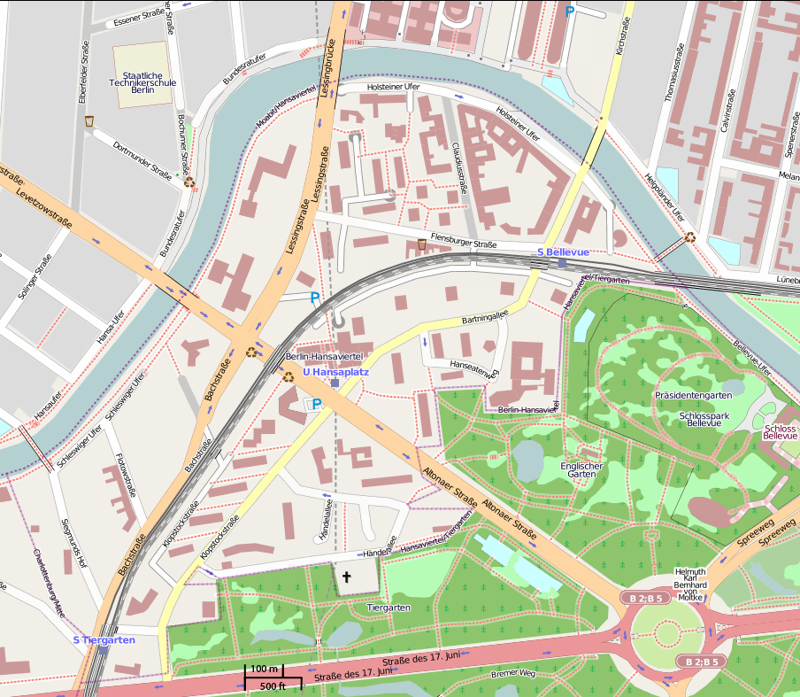 This map of Hansaviertel was created from OpenStreetMap project data, collected by the community.This map may be incomplete, and may contain errors. Don't rely solely on it for navigation.